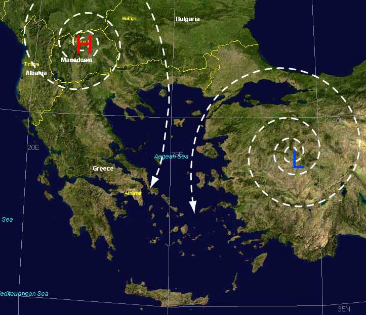 Diagram of high and low positions leading to Meltemi winds (Etesian) by Piotr Flatau !! Please mind that a cyclone is characterized by inward spiraling winds, which is obviously illustrated wrongly here. The background was generated using (open source) NASA Worldwind program. Adobe Photoshop and Adobe Illustrator was used to add other elements. Pflatau 21:02, 3 March 2006 (UTC)